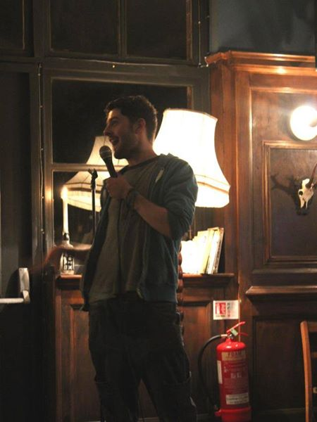 Aaron Morris - Comedian, standup 2012